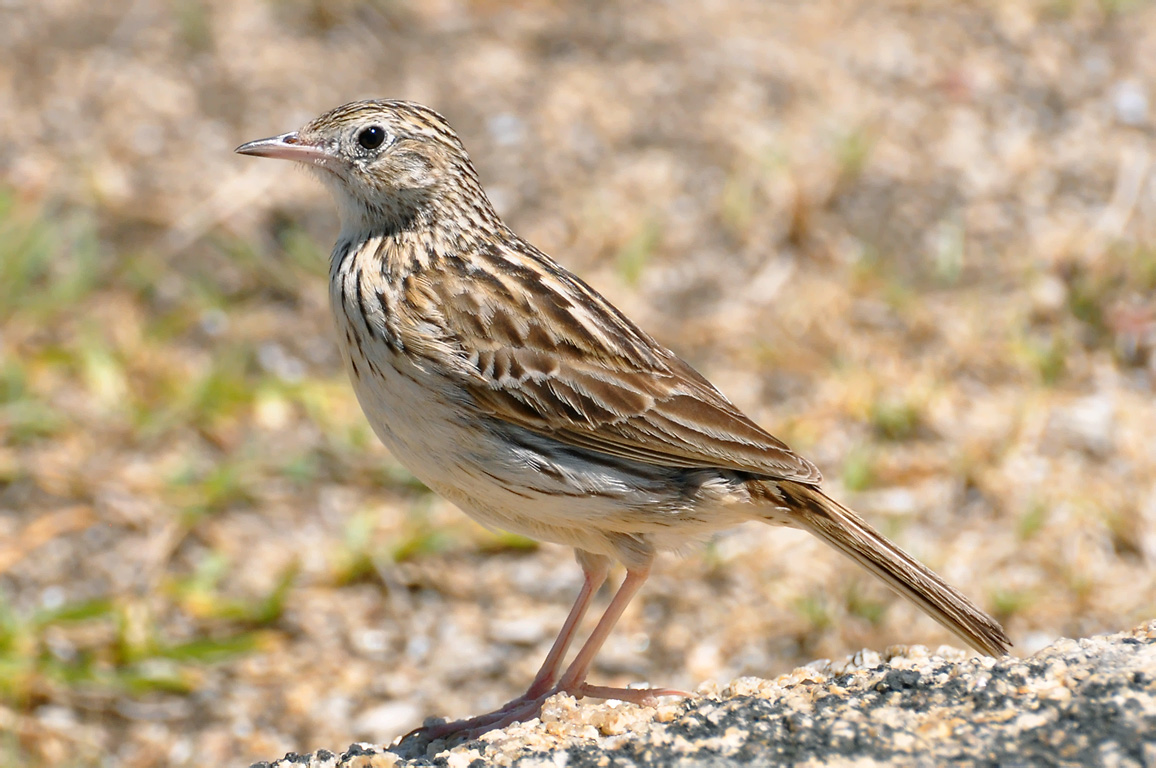 A Correndera Pipit in Cabo Polonio, Rocha, Uruguay.